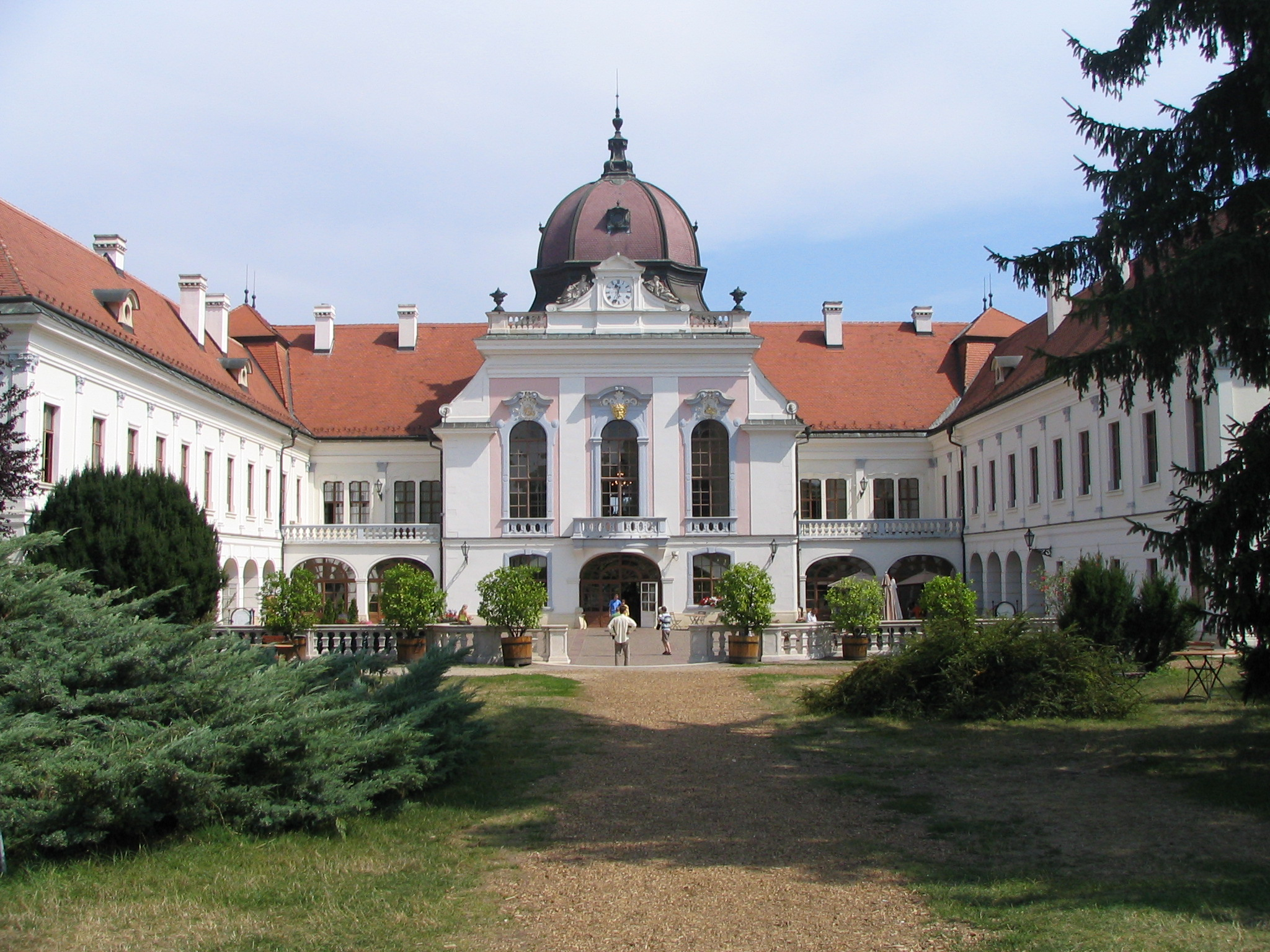 Gödöllői Királyi Kastély This is a photo of a monument in Hungary, Identifier: 7051